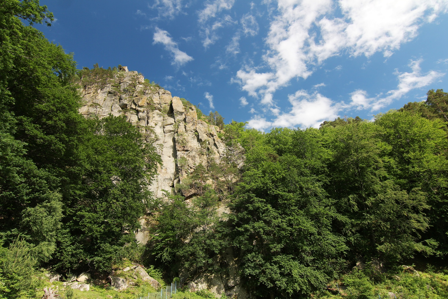 Lanscapes in the Buzăului Mountains, Romania: view from Ozana clearings towards Tihăria